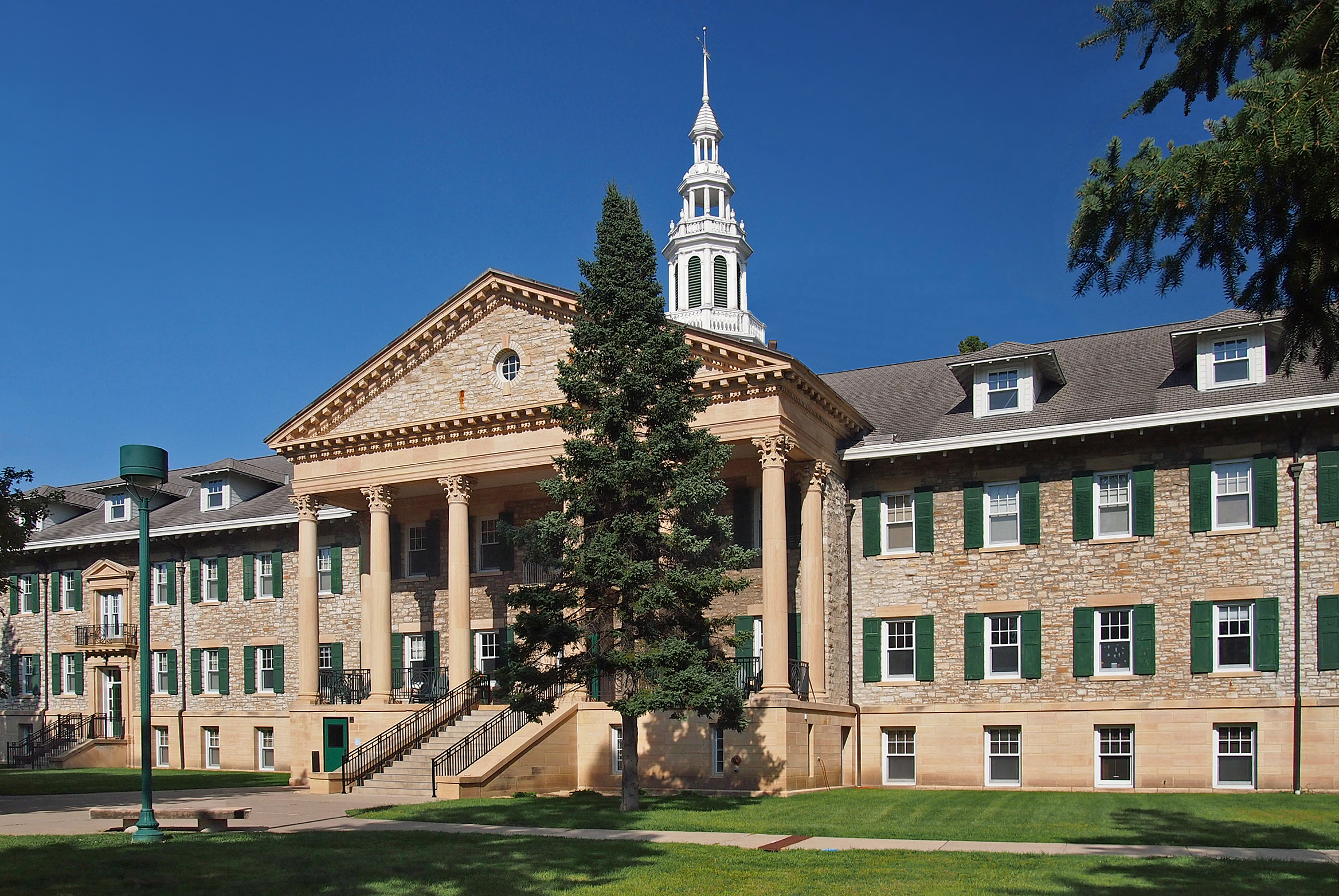 Administration Building–Girls' Dormitory, Minnesota School for the Deaf, Faribault, Minnesota, USA. View facing east-northeast, image corrected for tilt distortion.